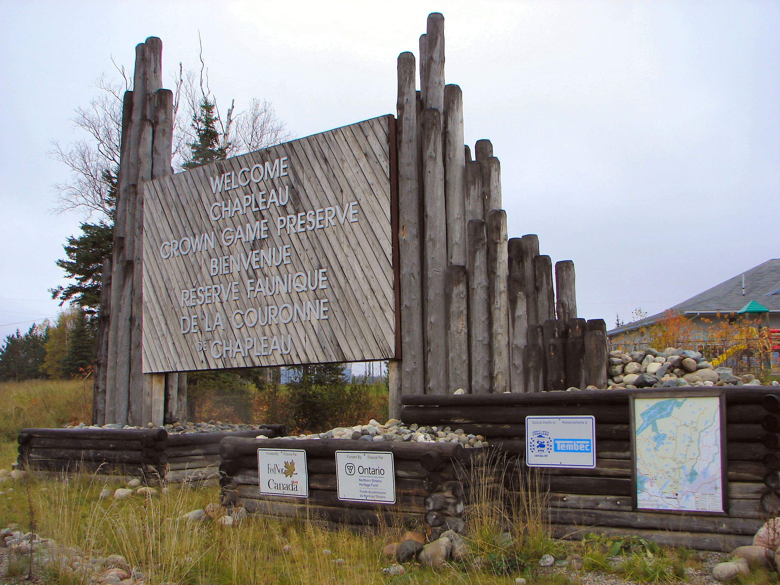 Welcome sign of the Chapleau Crown Game Preserve, Ontario, Canada